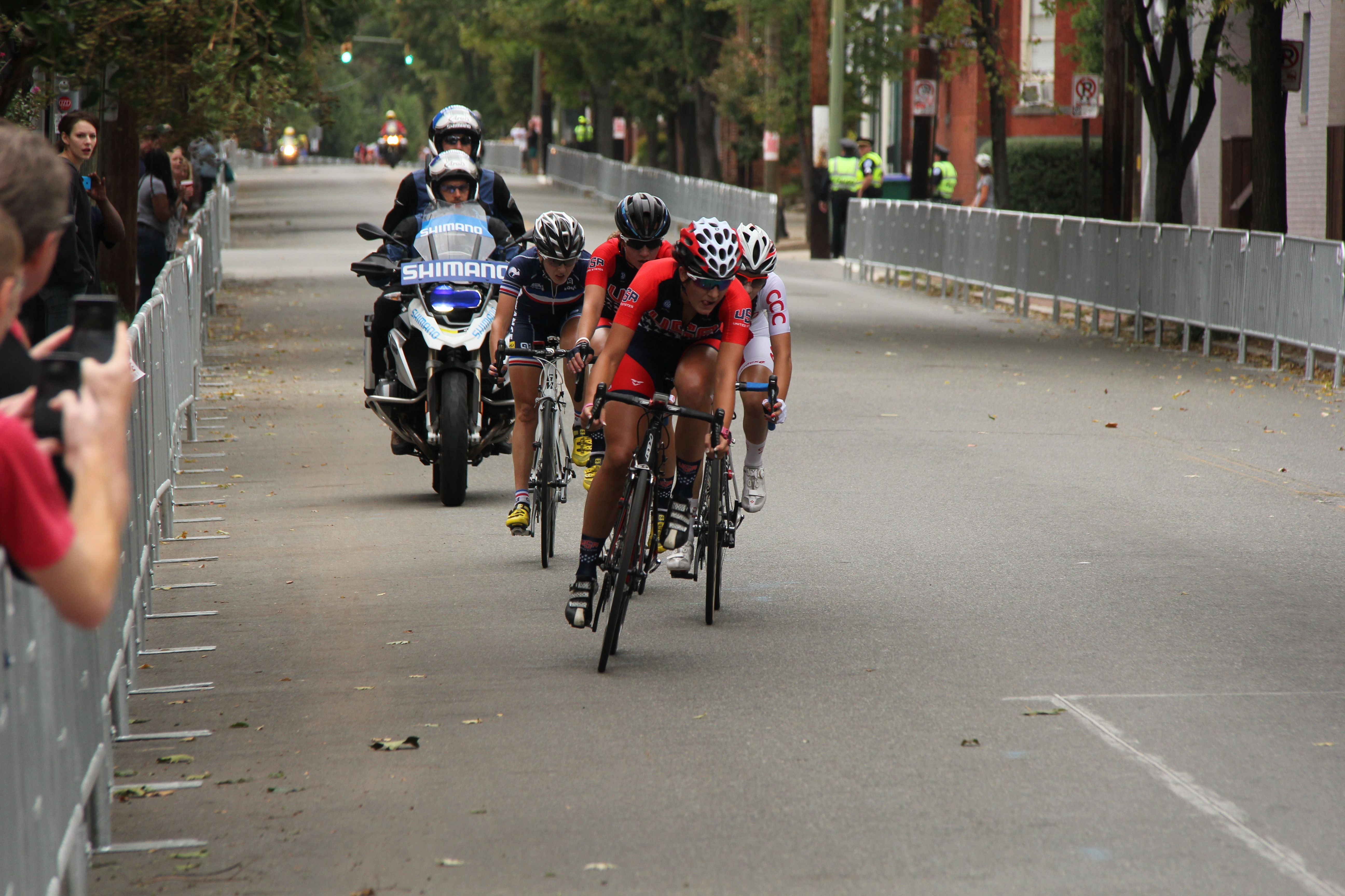 The world has come to Richmond. Welcome! Bienvenidos! Willkommen! 2015 UCI Road World Championshipsi in Richmond, Virginia, USA, women's junior road race